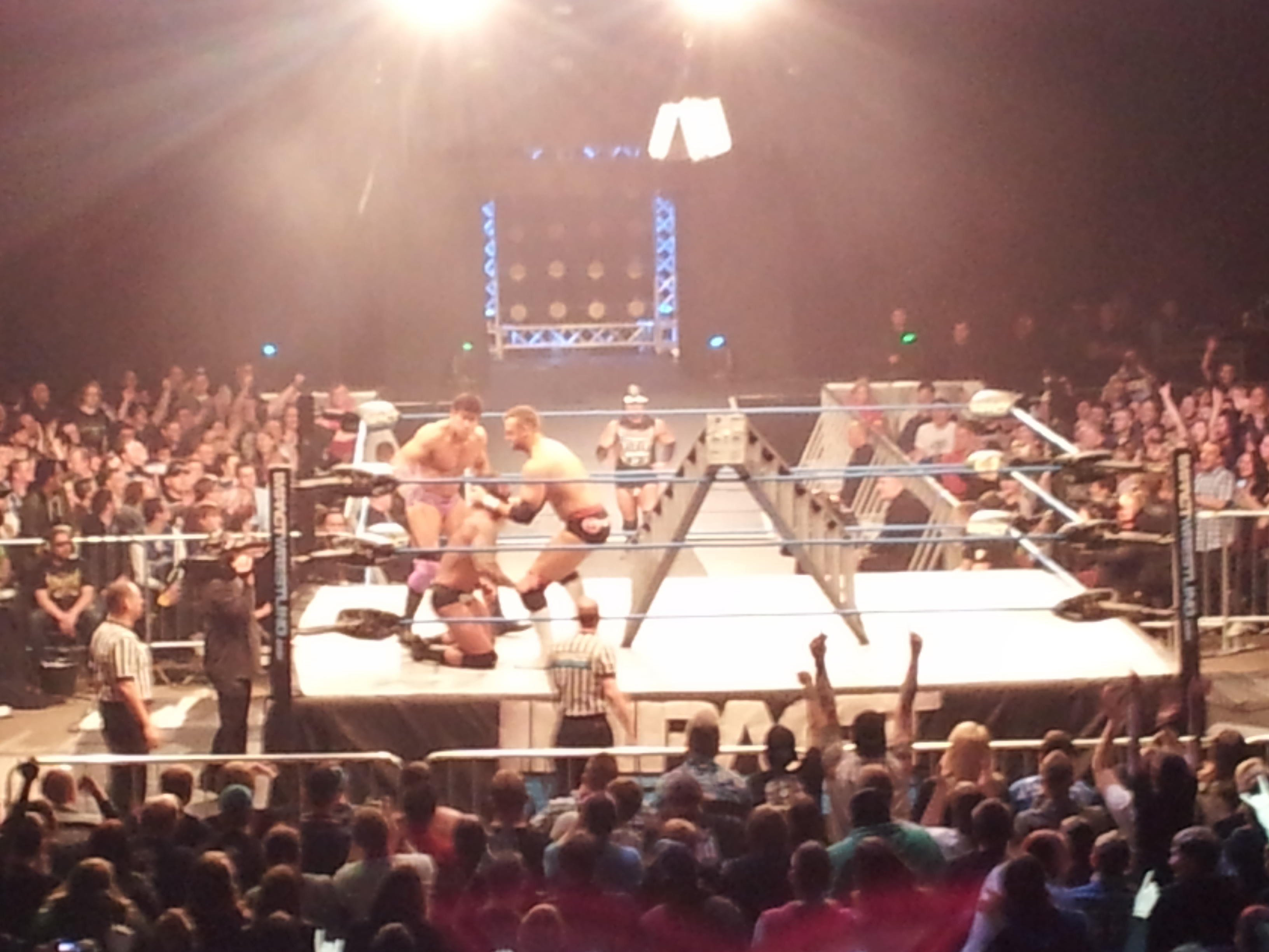 TNA Maximum Impact VI Tour – 31st January 2014 – Phones 4 U Arena, Manchester